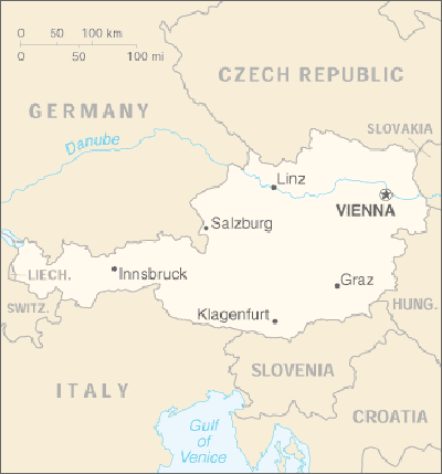 Austria map from CIA World Factbook, converted from original GIF format